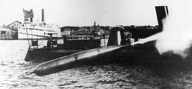 Mark III Whitehead Torpedo Is fired from the East Dock, Goat Island, Newport Torpedo Station, Rhode Island, in 1894. In the immediate background is the stern of USS Cushing (Torpedo Boat # 1), incorrectly identified on the original print as USS Talbot (Torpedo Boat # 15). Copied from an original photograph held by the Naval Underwater Systems Center, Newport, R.I. U.S. Naval Historical Center Photograph.